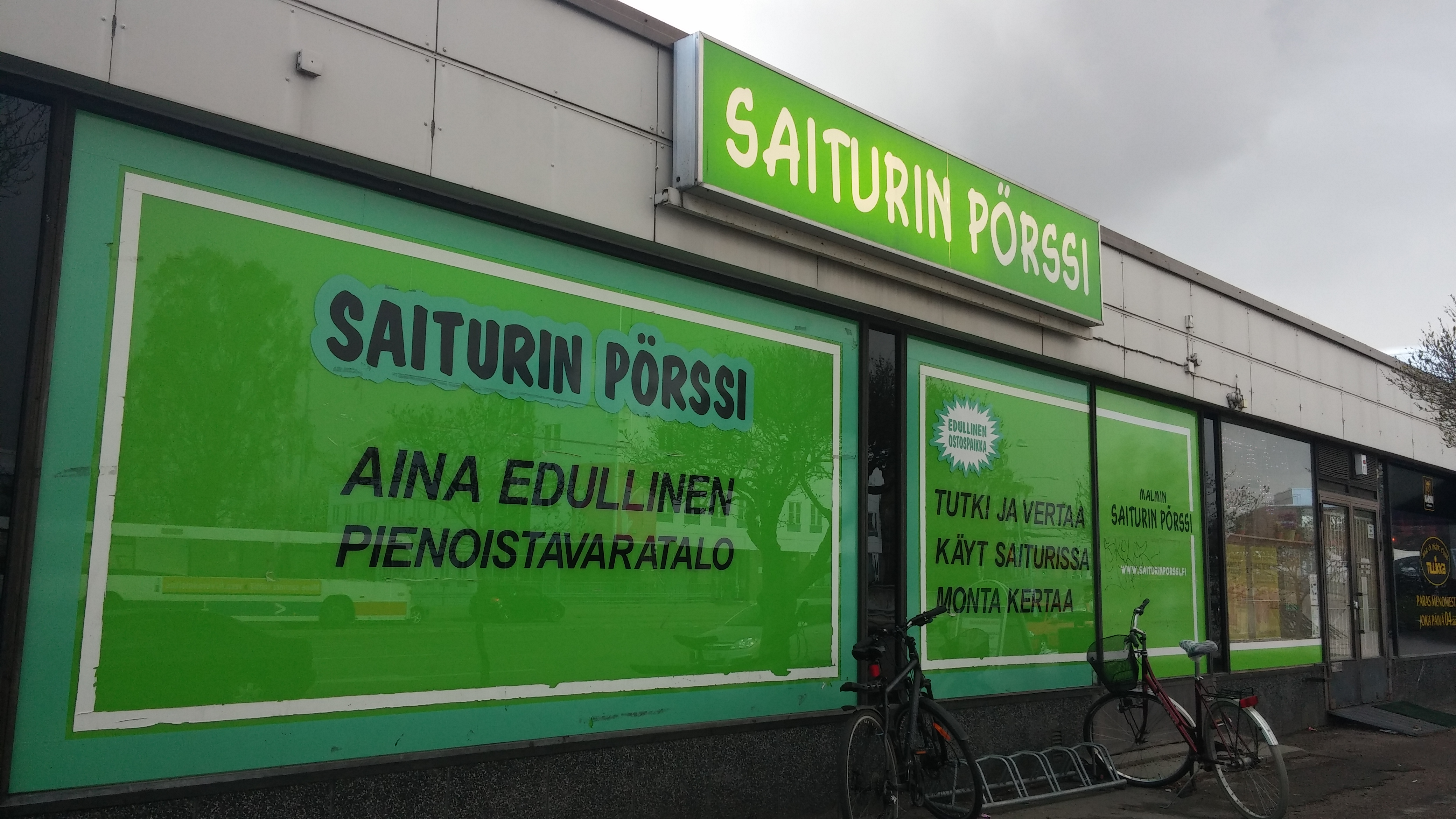 Saiturinpörssi